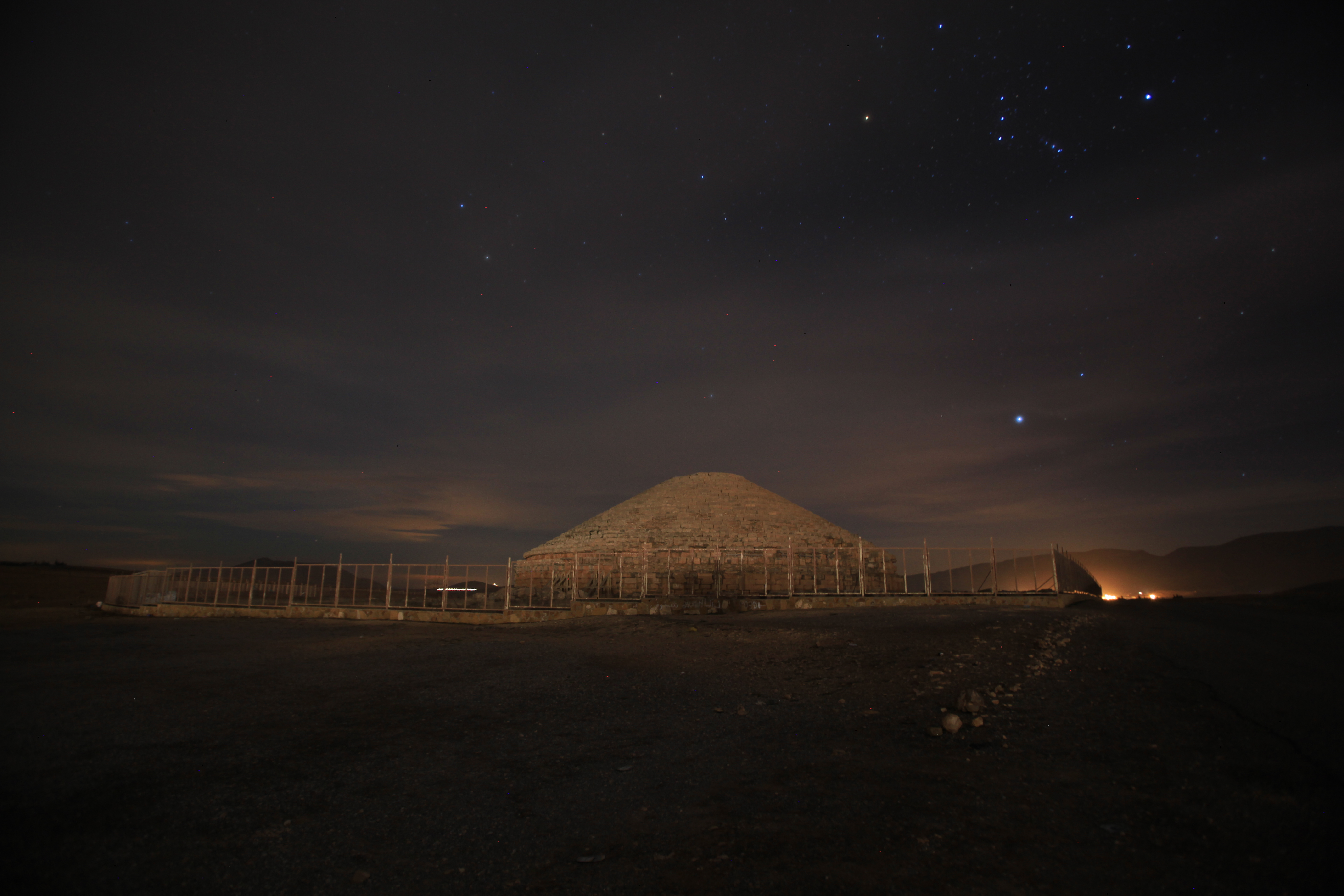 Imedghasen is a royal mausoleum-temple of the Berber Numidian Kings which stands near Batna city in Aurasius Mons in Numidia - Algeria.